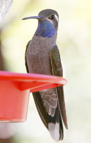 Blue-throated Hummingbird [Mountain-gem] male, Huachuca Mountains, Arizona, USA.